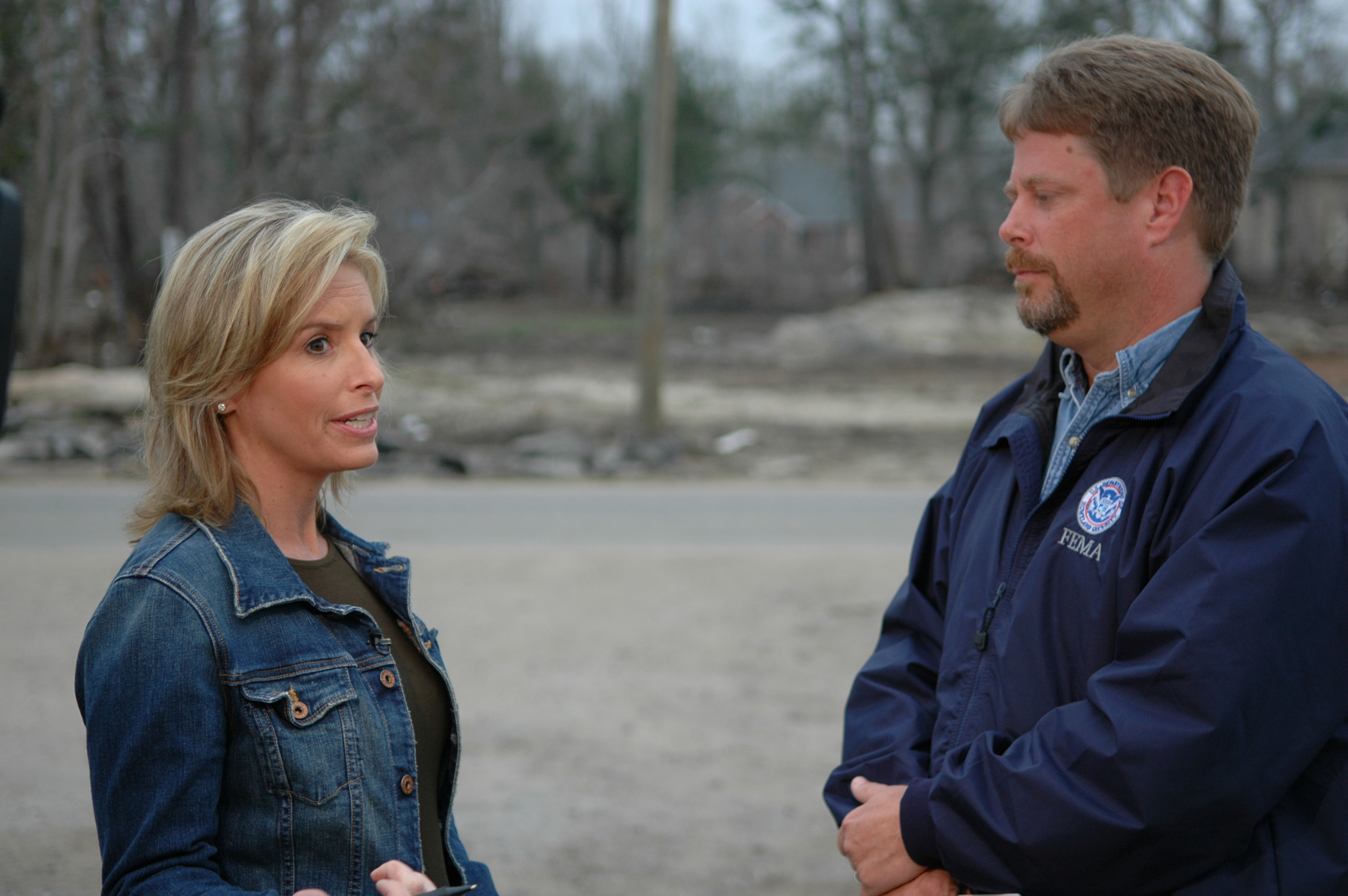 Pass Christian, Miss., February 21, 2006 -- FEMA Operations Section Chief Eric Gentry listens to a question from CNN reporter Randi Kaye at the tent city in Pass Christian. FEMA will provide the remaining residents of the tent city other forms of temporary housing by March 15. Mark Wolfe/FEMA